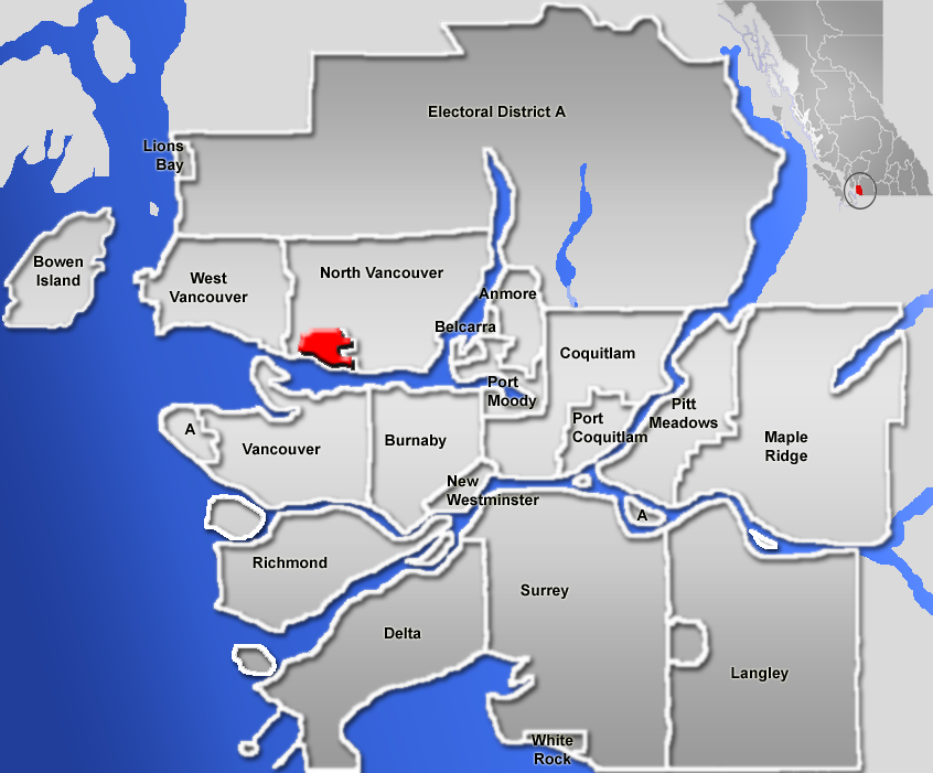 Location of North Vancouver (city), Greater Vancouver Area, British Columbia